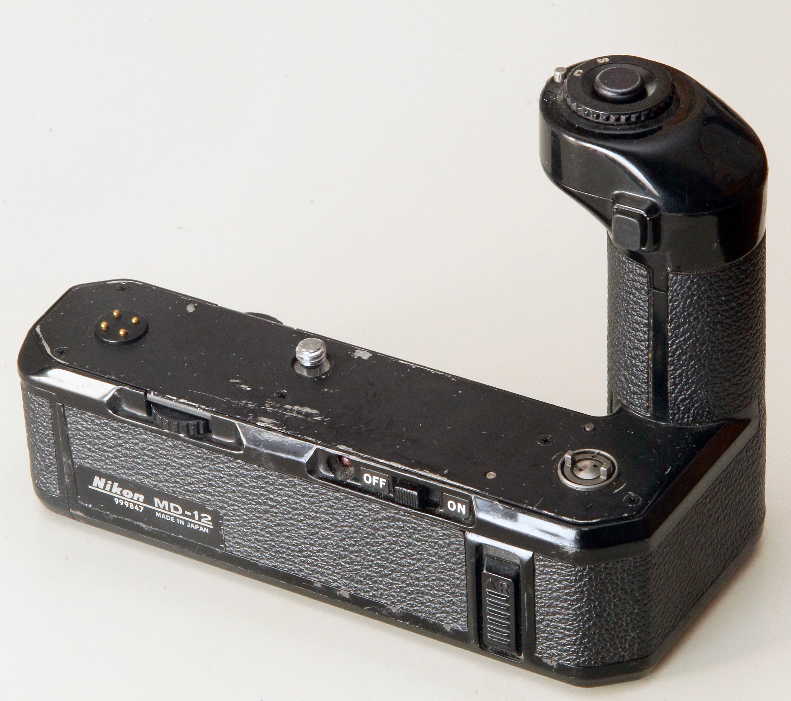 Motor drive Nikon MD12 for FM/FE/FA series camera.